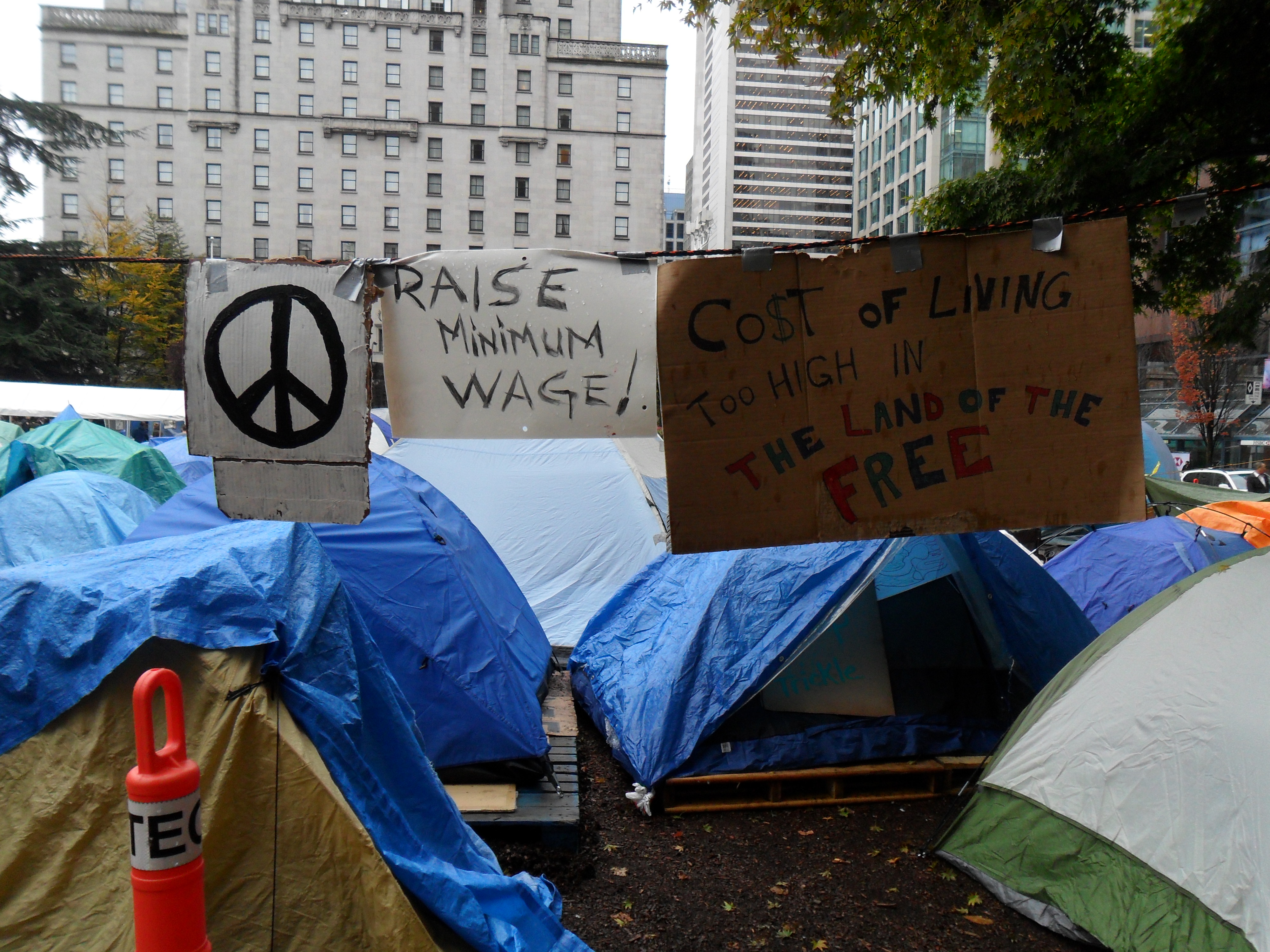 Occupy Vancouver tents and a peace sign, a sign that reads "RAISE MINIMUM WAGE!" and another that reads "COST OF LIVING TOO HIGH IN THE LAND OF THE FREE"